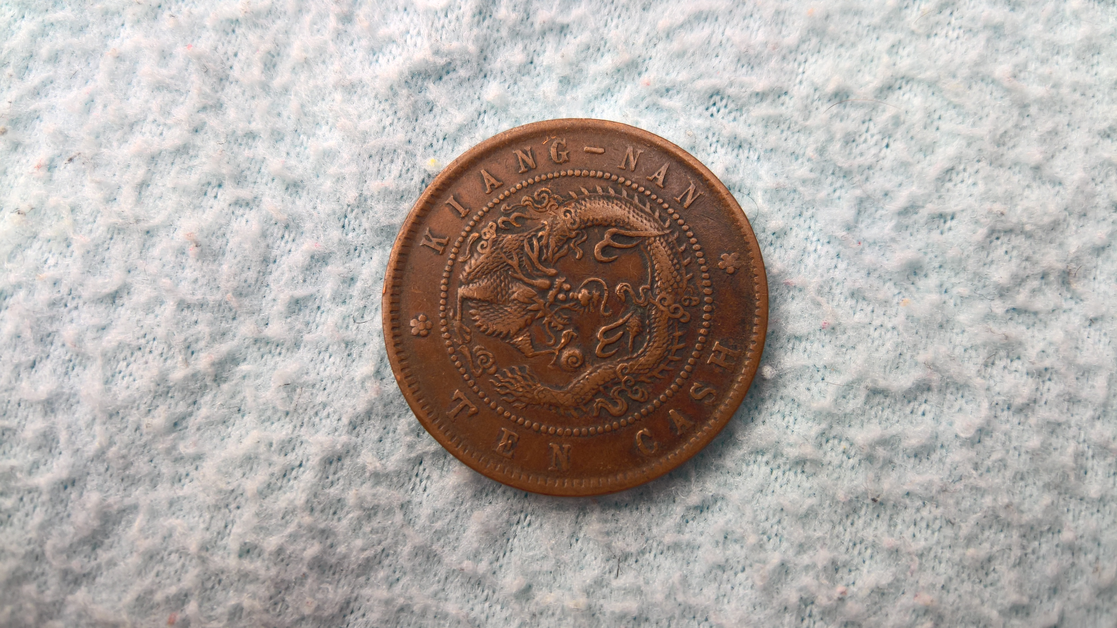 A Guāng Xù Yuán Bǎo (光緒元寶) produced for the Jiangnan region.